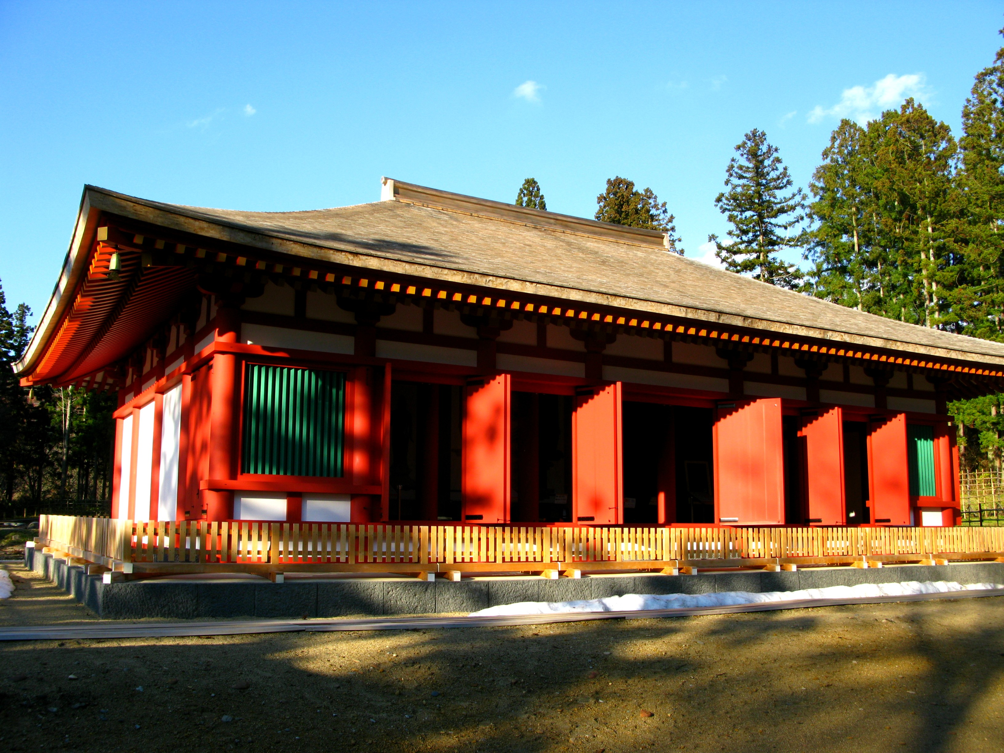 Restored Kondo (main hall) at the historic site of Enichiji temple in Bandai Town, Fukushima Prefecture, Japan